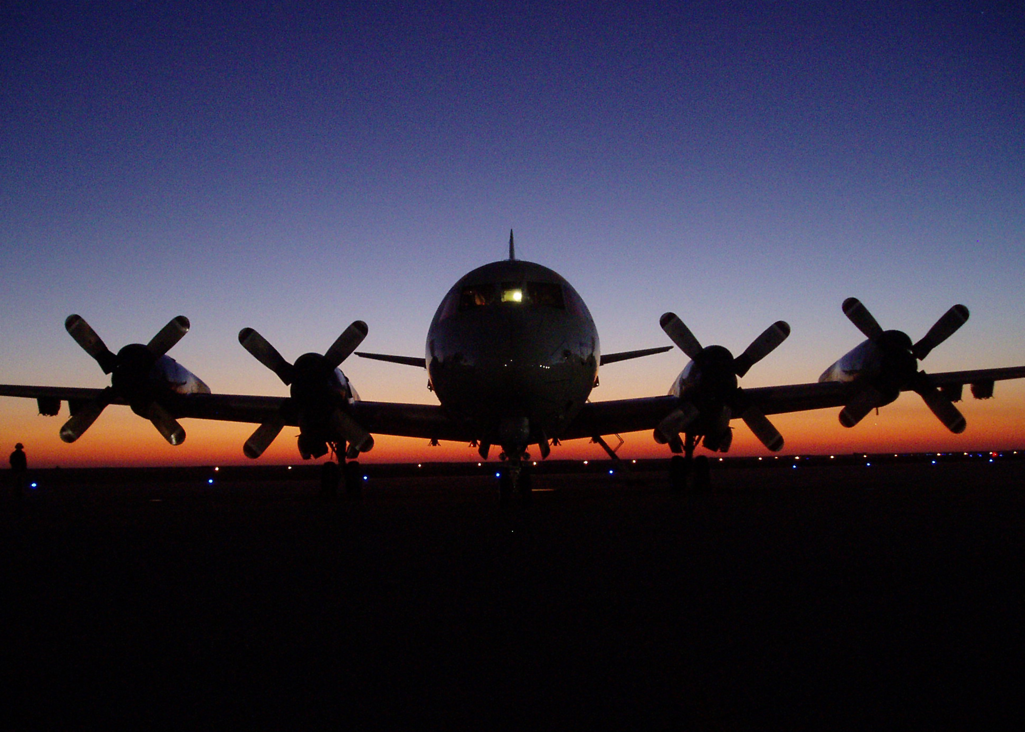 ALI AIR BASE, Iraq (Jan. 3, 2007) - Combat Air Crew (CAC) 12, of Patrol Squadron (VP) 45, prepares for a combat reconnaissance mission in support of the global war on terrorism. U.S. Navy photo by Lt. William L. Webb (RELEASED)